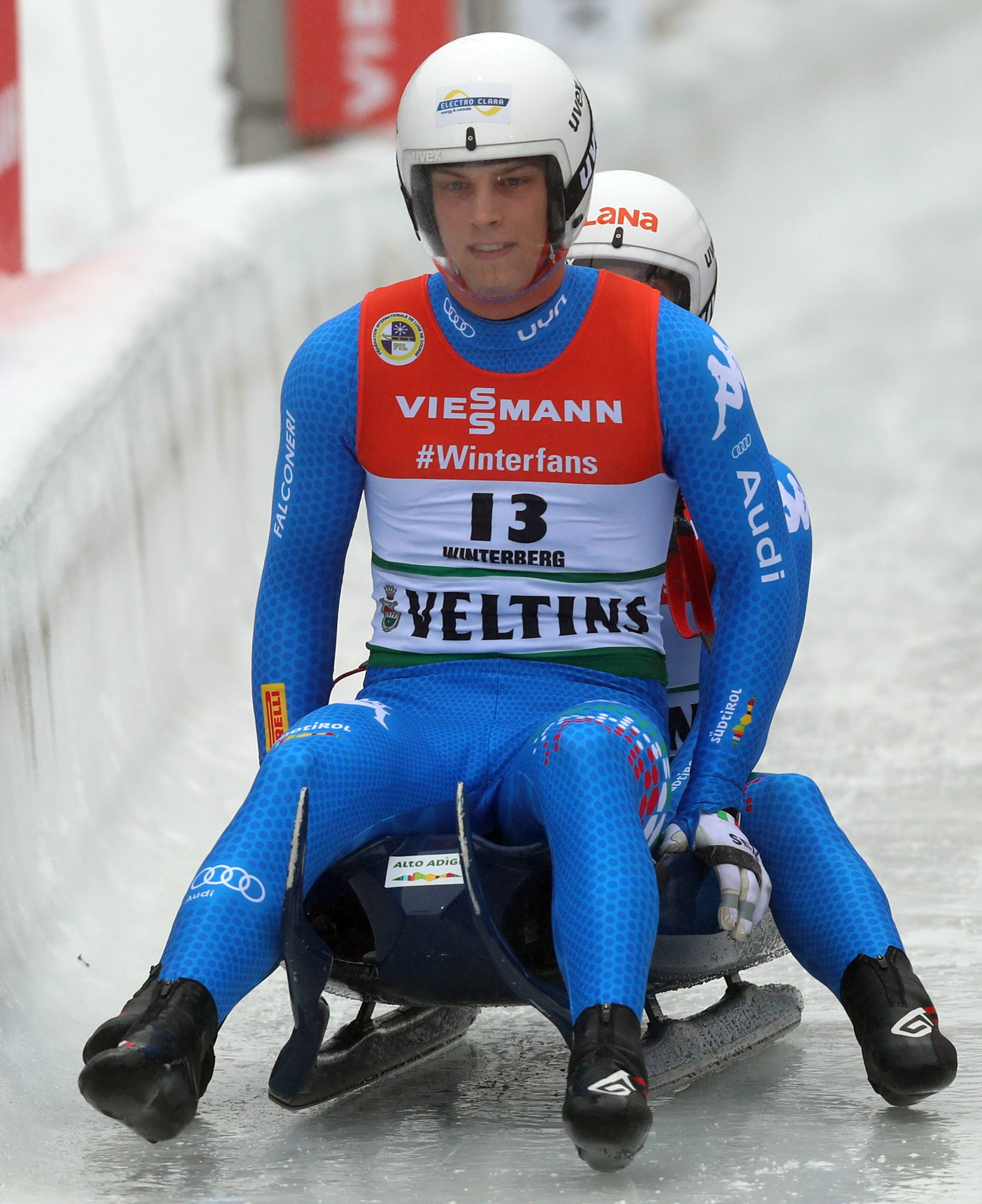 Doubles race at the FIL World Luge Championships 2019 in Winterberg